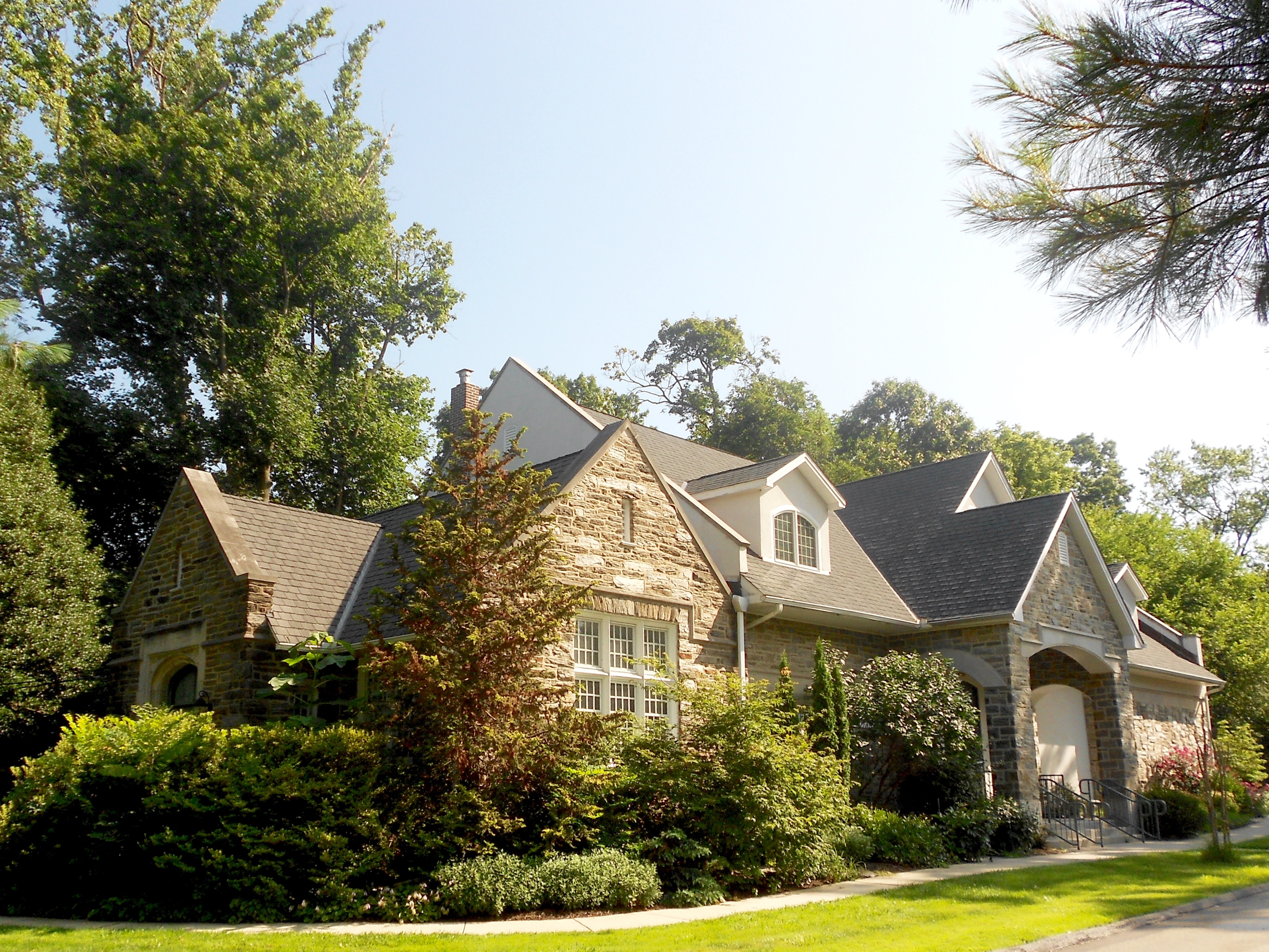 Helen Kate Furness Free Library in Walingford, Pennsylvania